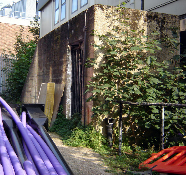 Metropolitan Borough of Stoke Newington: Like most British local authorities of the 1950s-60s, Stoke Newington possessed its own nuclear shelter. It is still there, though disused now except for storage. Shown here is the entrance still visible at the back of the town hall, 4 September 2005. Photographer: Fin Fahey.